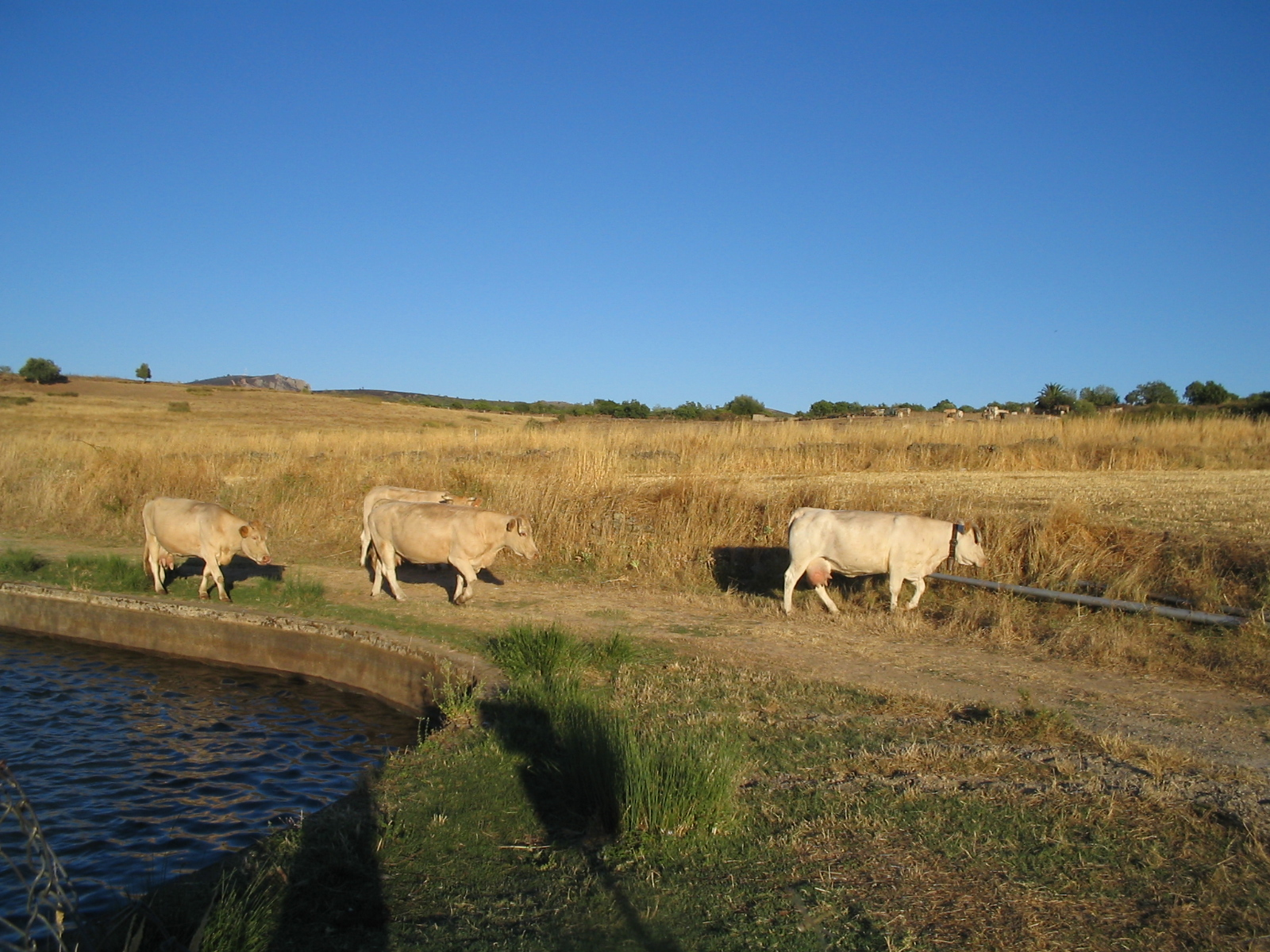 Portezuelo (Cáceres, Extremadura, Spain), cows